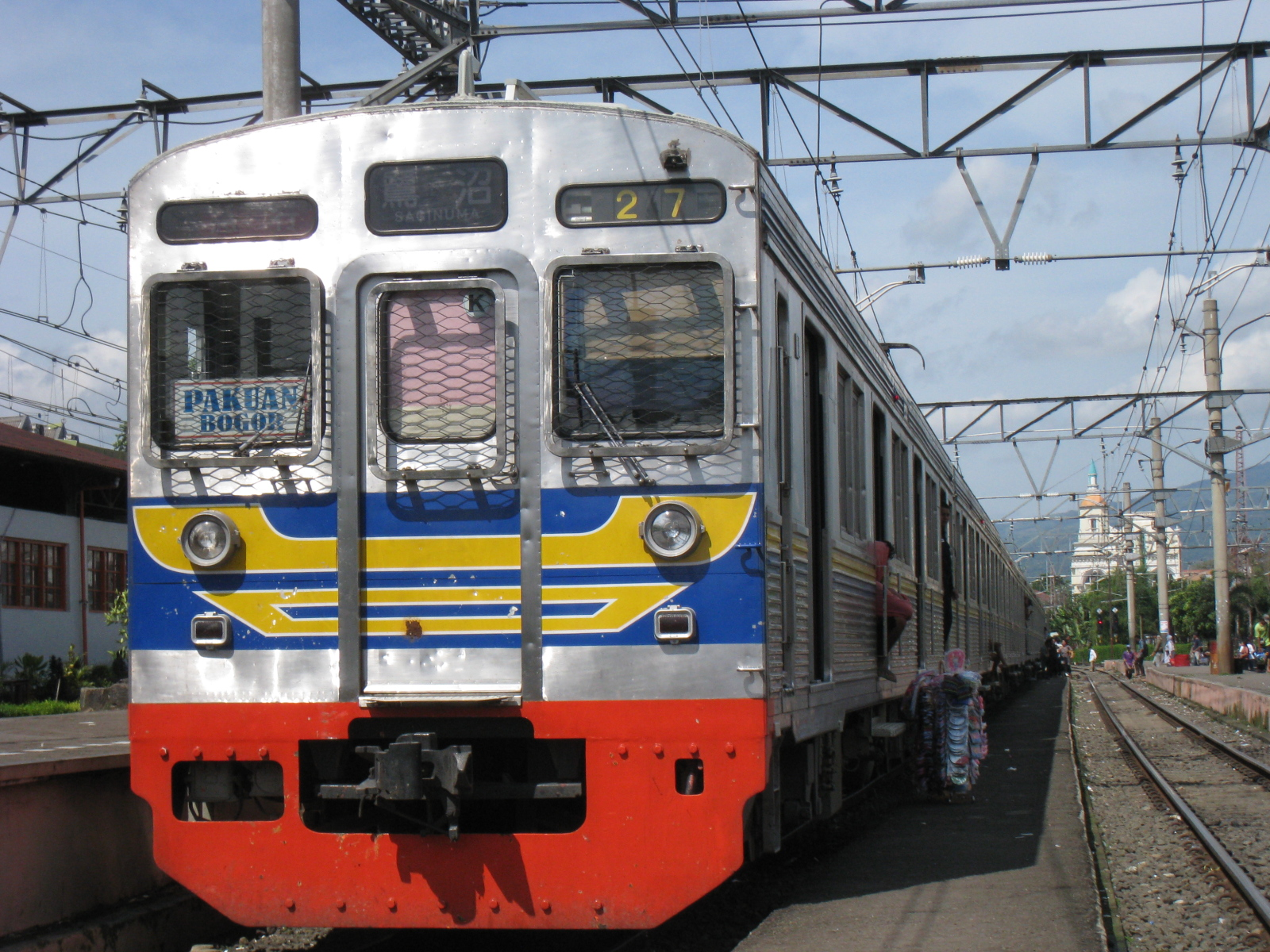 The one of rolling stocks of Jabodetabek Railway. Jabodetabek 8500 Series - 8610F EMU trainsets, former of Tōkyū Denentoshi Line. Bogor Station, Bogor, West Java - Indonesia